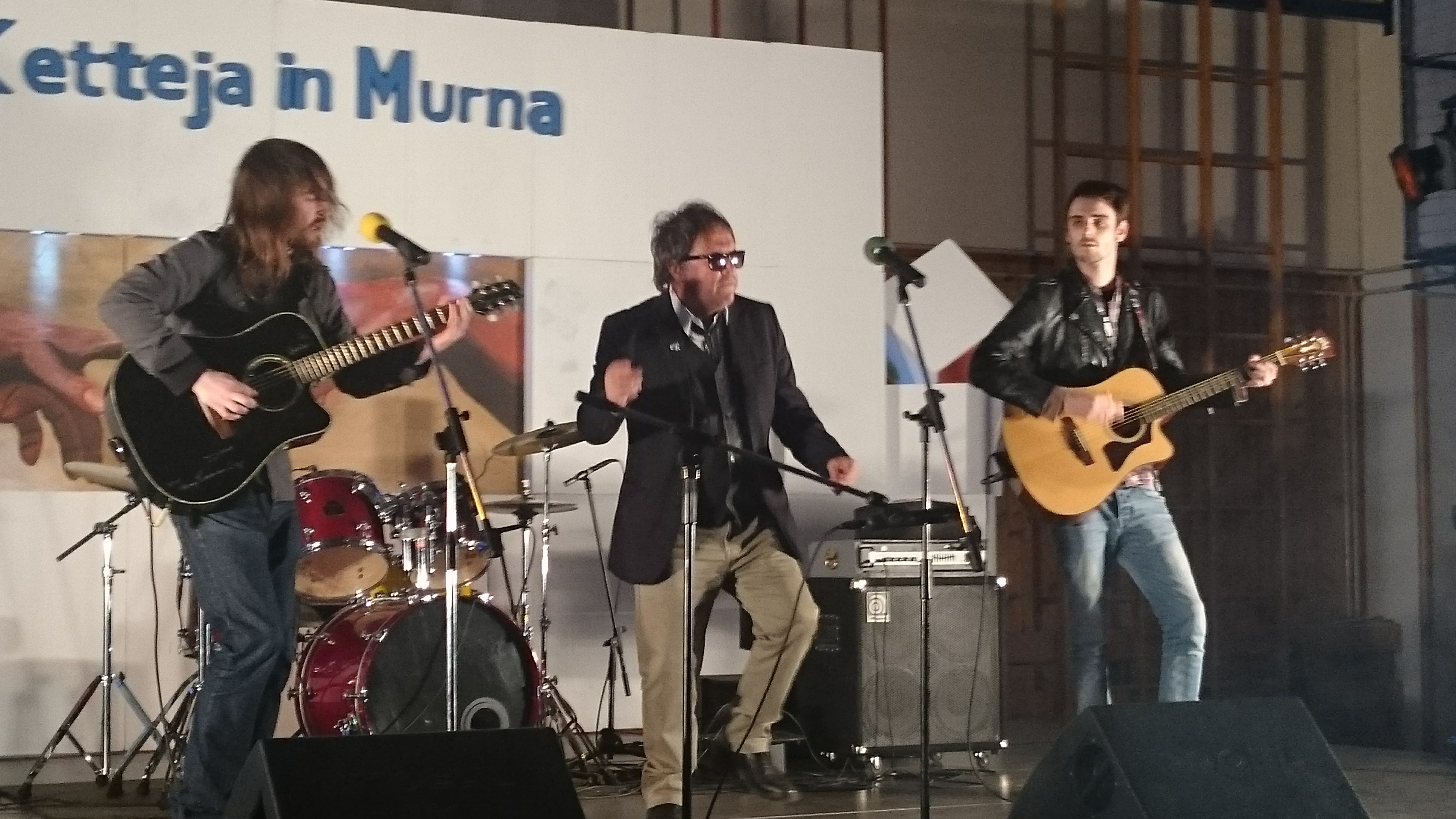 Peter Lovšin, Kodeljevo, 2015